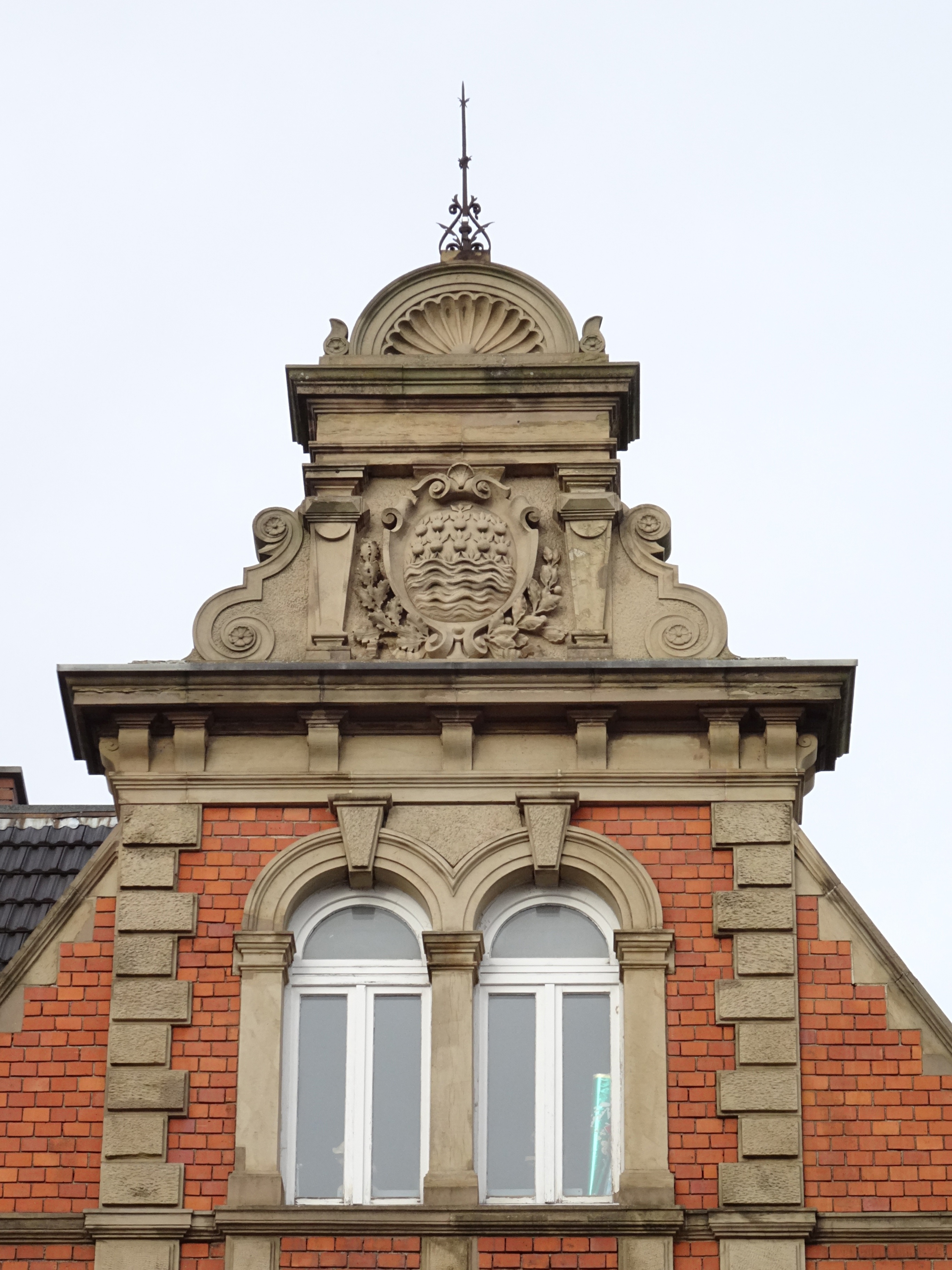 Mannheim-Neckarau (Germany), townhall, gable with the coat of Neckarau